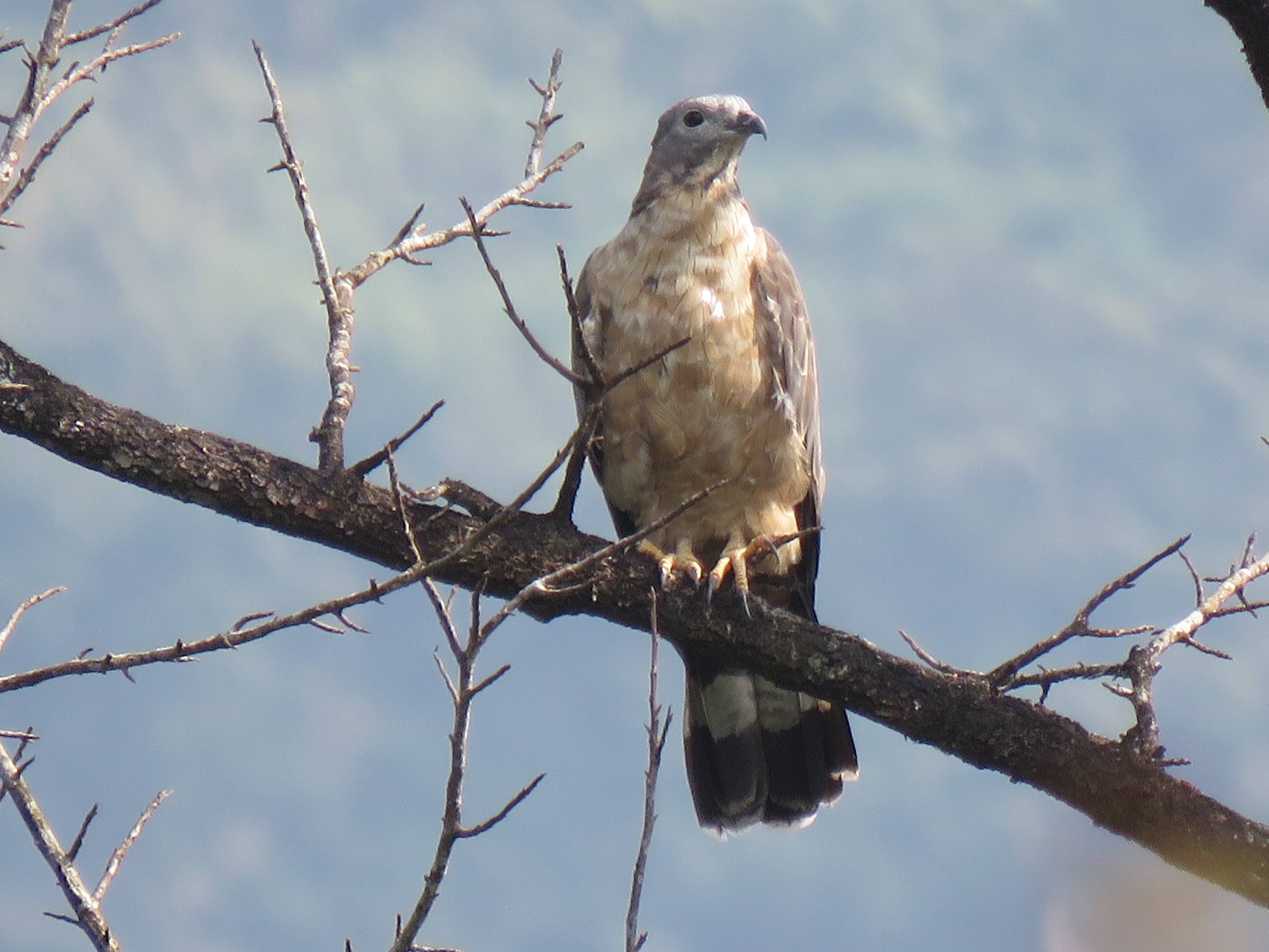 Crested Honey Buzzard (Oriental Honey-buzzard)_IMG 3364 VAlparai